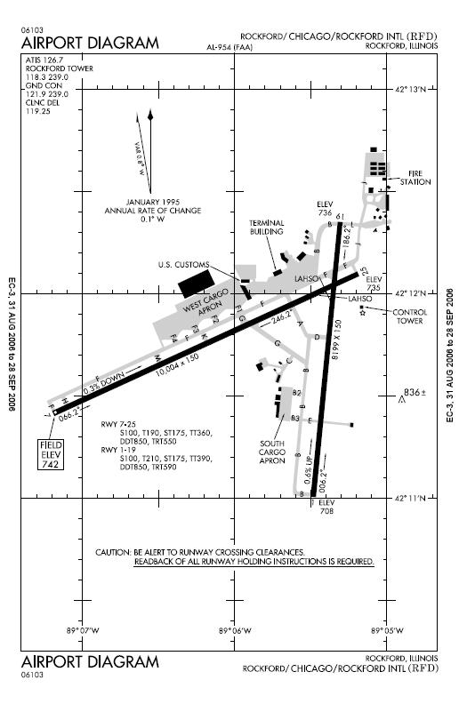 FAA diagram for Chicago Rockford International Airport (RFD) in Rockford, Illinois, United States. Warning: this diagram contains material which is subject to change, do not use for navigation.